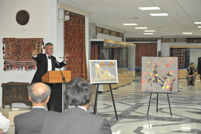 Contemporary art auction of MEROS Association of Antiques Karakalpakstan 2012